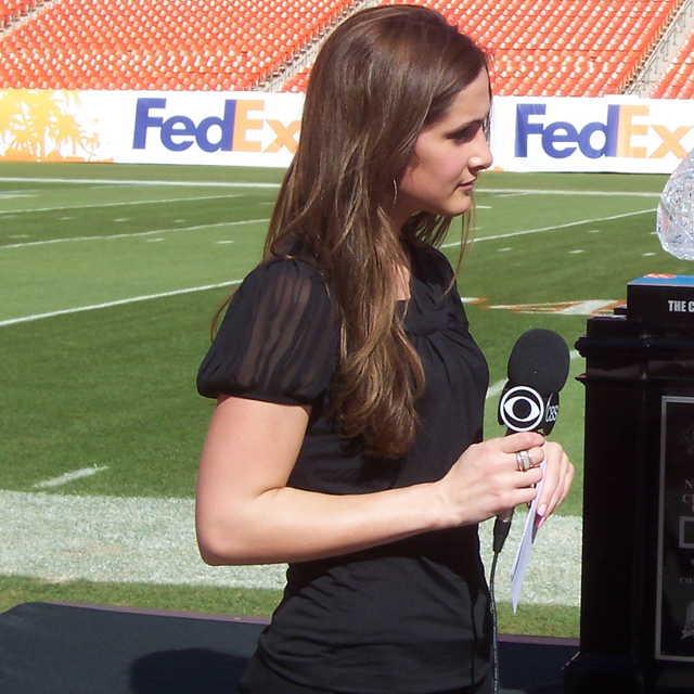 Lauren Shehadi working the 2008 BCS National Title Game.